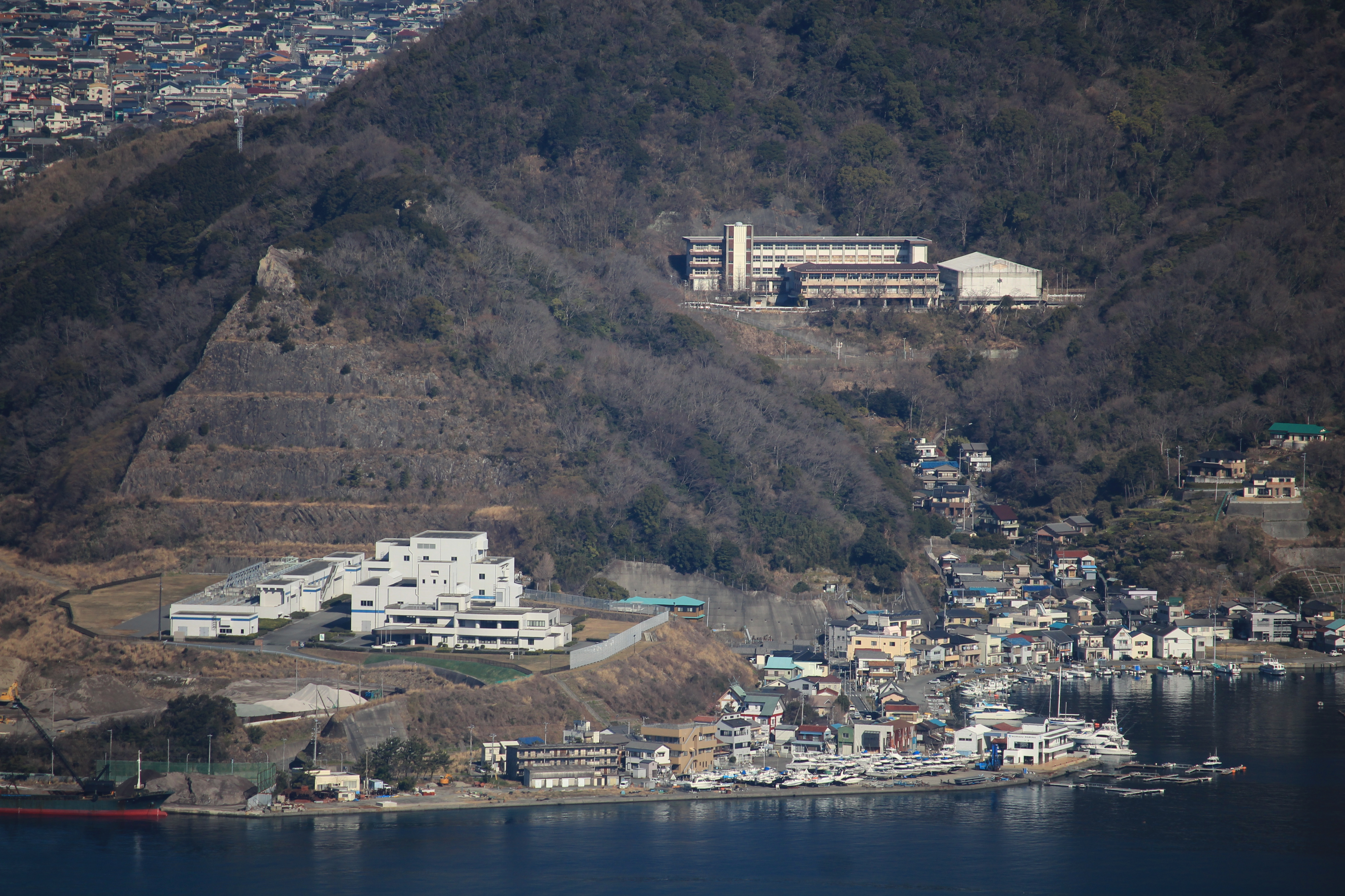 Shizuura junior high school (closed) seen from Mount Hottanjō, in Numazu, Shizuoka prefecture, Japan.